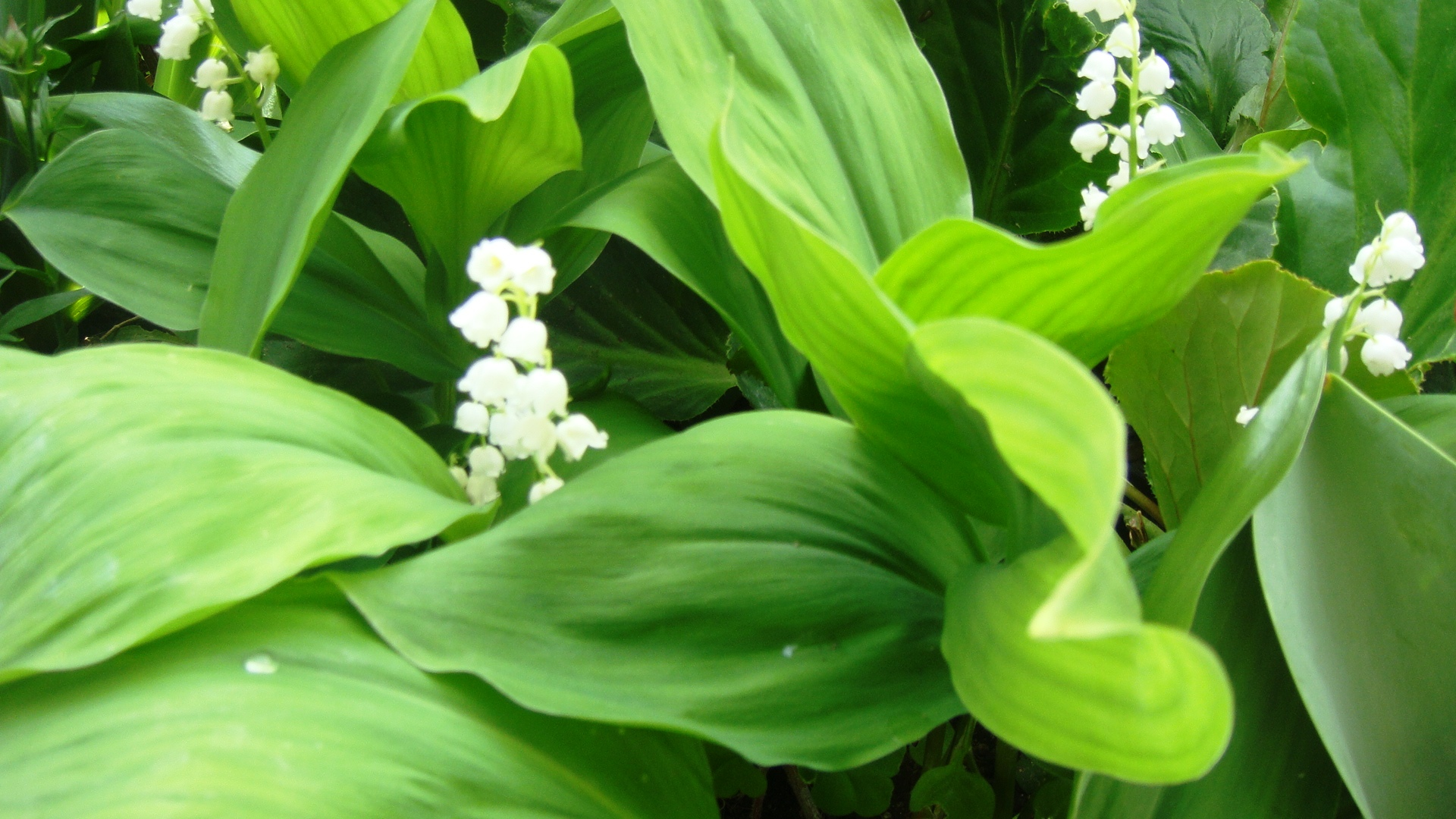 Convallaria majalis or Lily of the valley